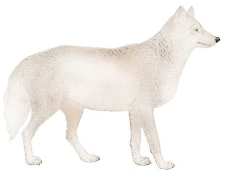 Newfoundland wolf illustration, modified from Himalayan wolf from File:Dogs, jackals, wolves, and foxes (Plate III).jpg